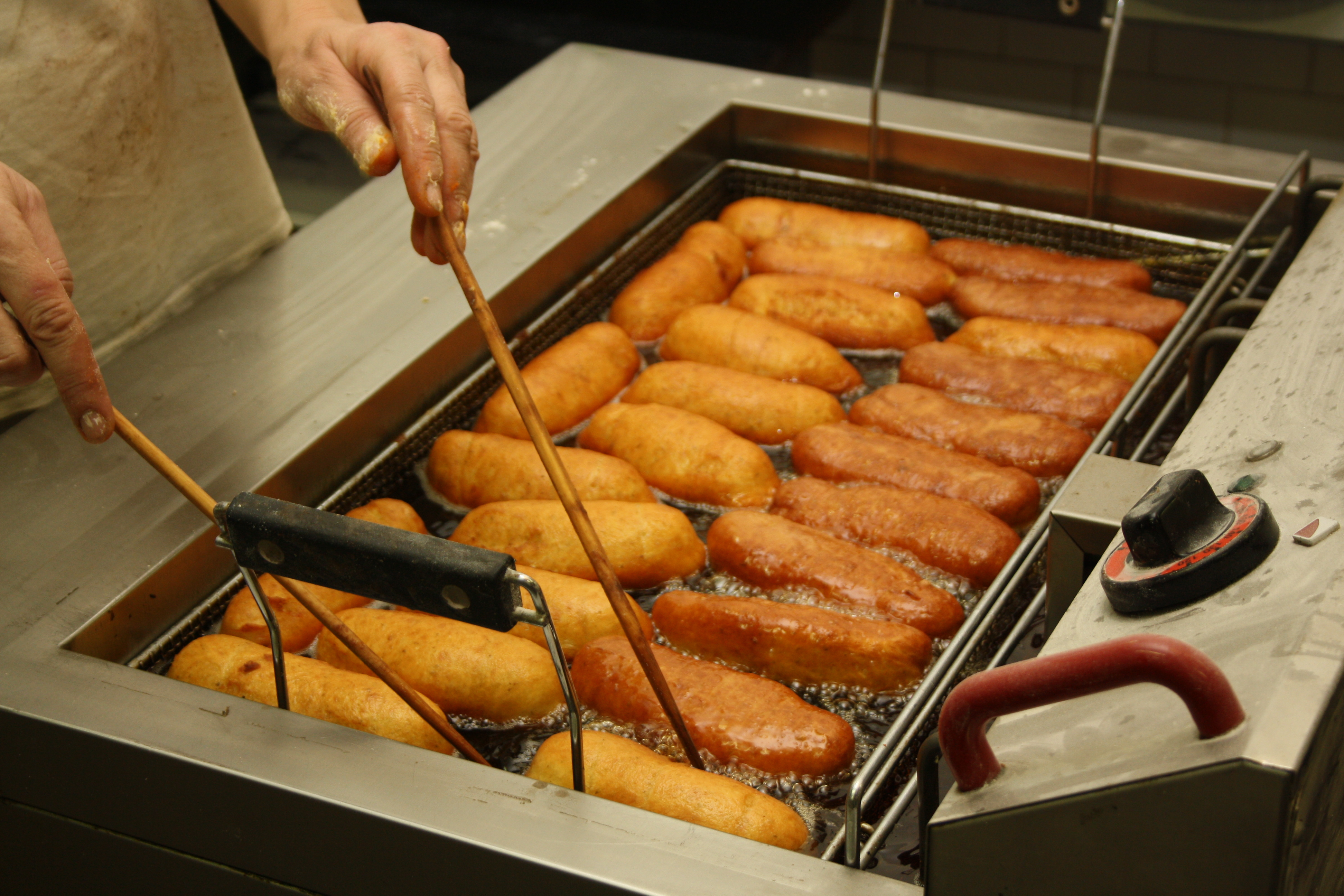 Production process of czech "bramboráček", bread made of potato dough. This photograph was taken with a DSLR from WMCZ's Camera grant. This picture was taken and/or got within the scope of the 'Acquiring scientific and specialized pictures' grant.